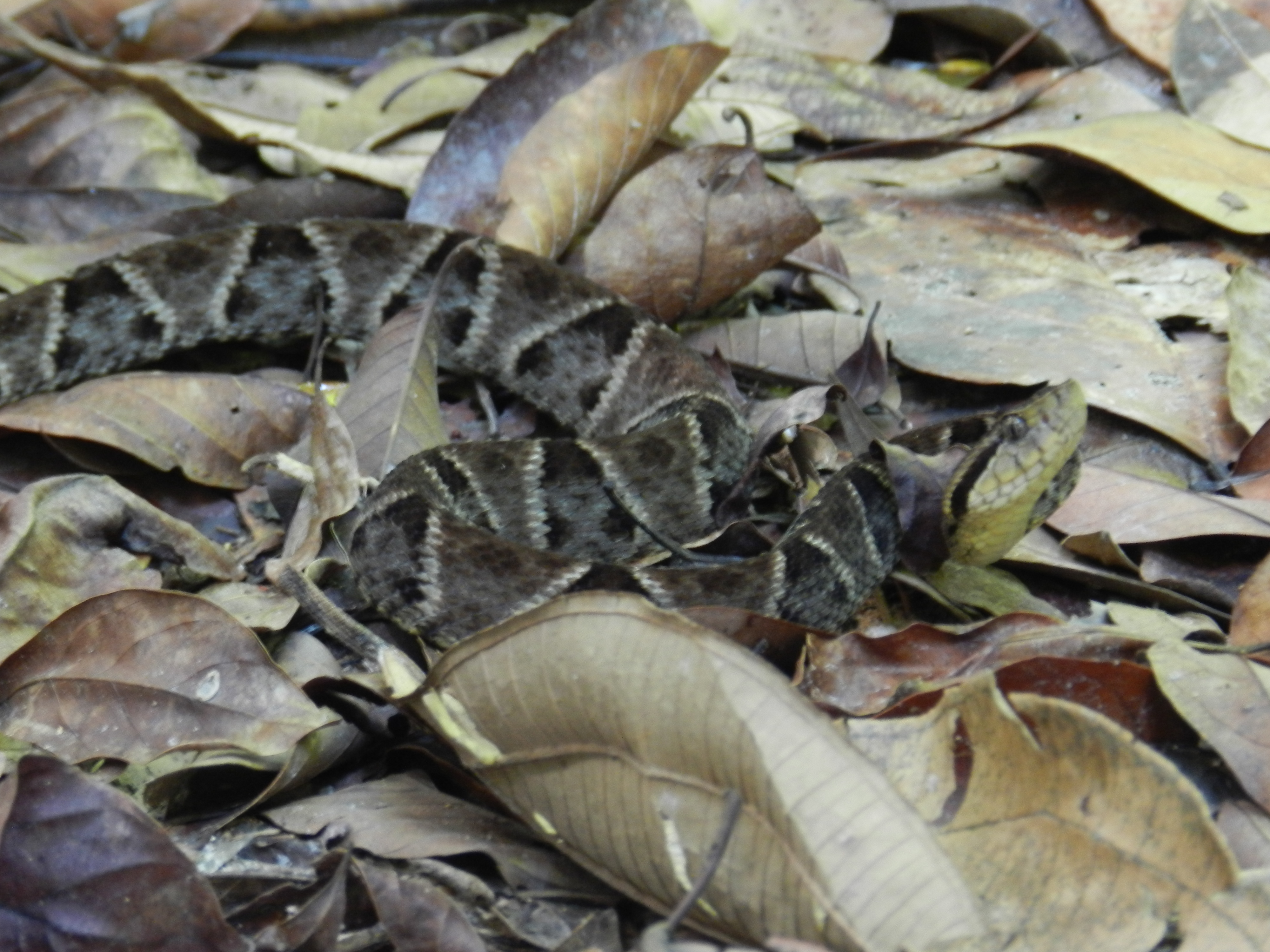 Bothrops atrox or Mapepire Balsain, Limon Road, Arima, Trinidad.